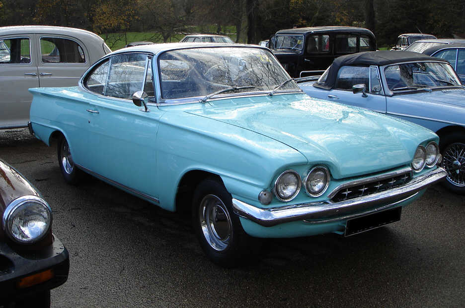 1962 Ford Consul Capri. Photographed by myself, November 2006.